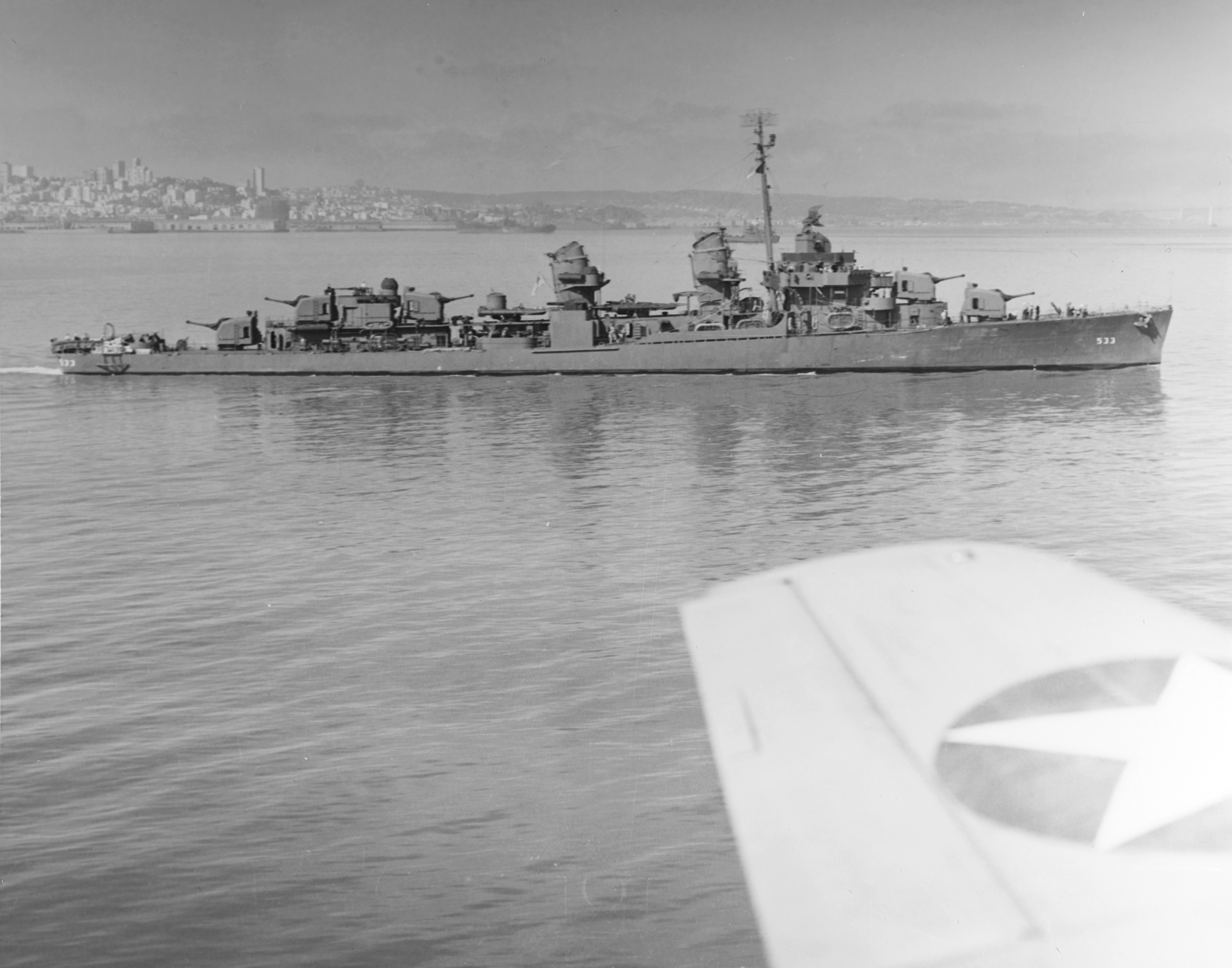 The U.S. Navy destroyer USS Hoel (DD-533) underway in San Francisco Bay, California (USA), on 7 August 1943.